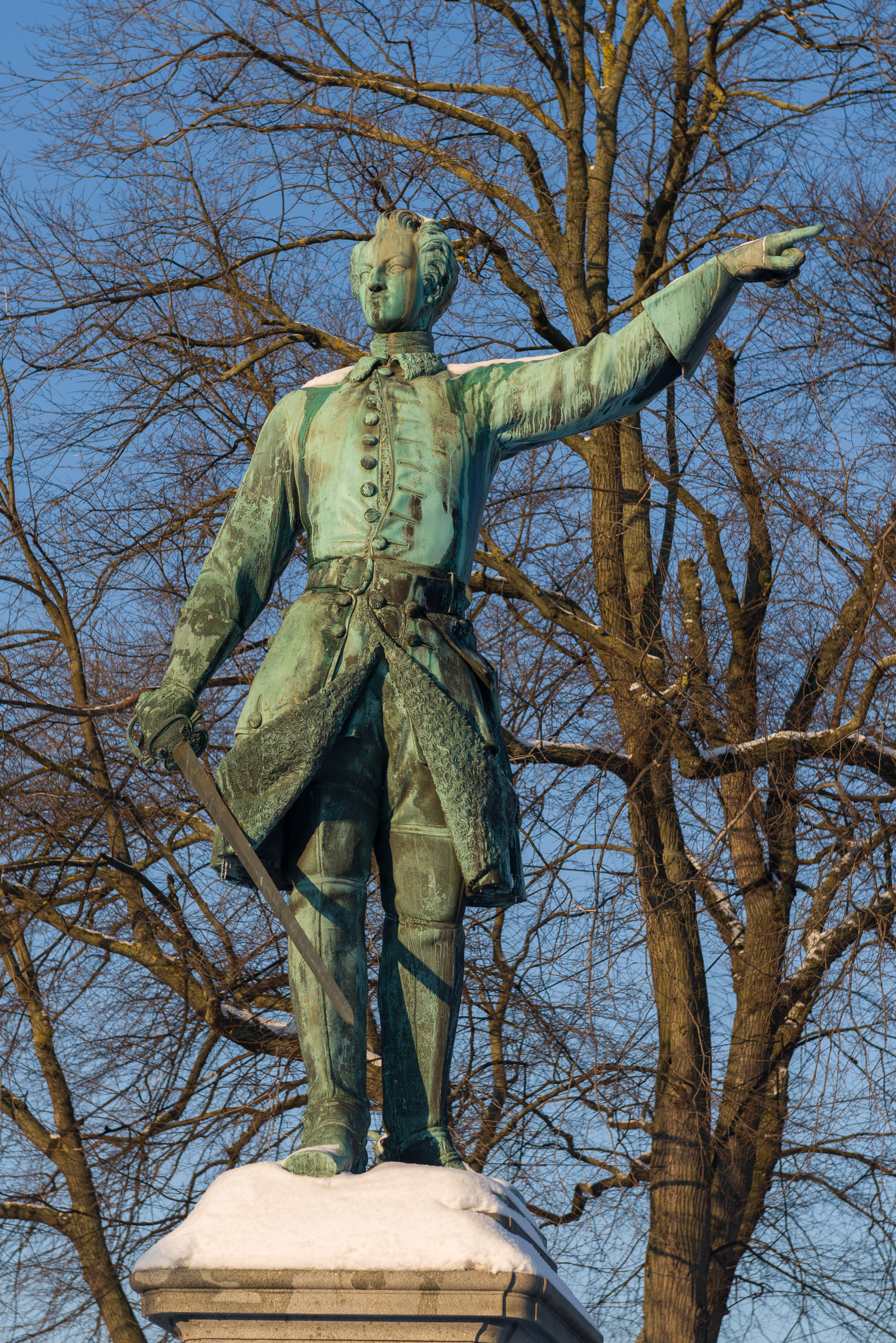 Statue of Charles XII of Sweden, Kungsträdgården Stockholm. Artist Johan Peter Molin.